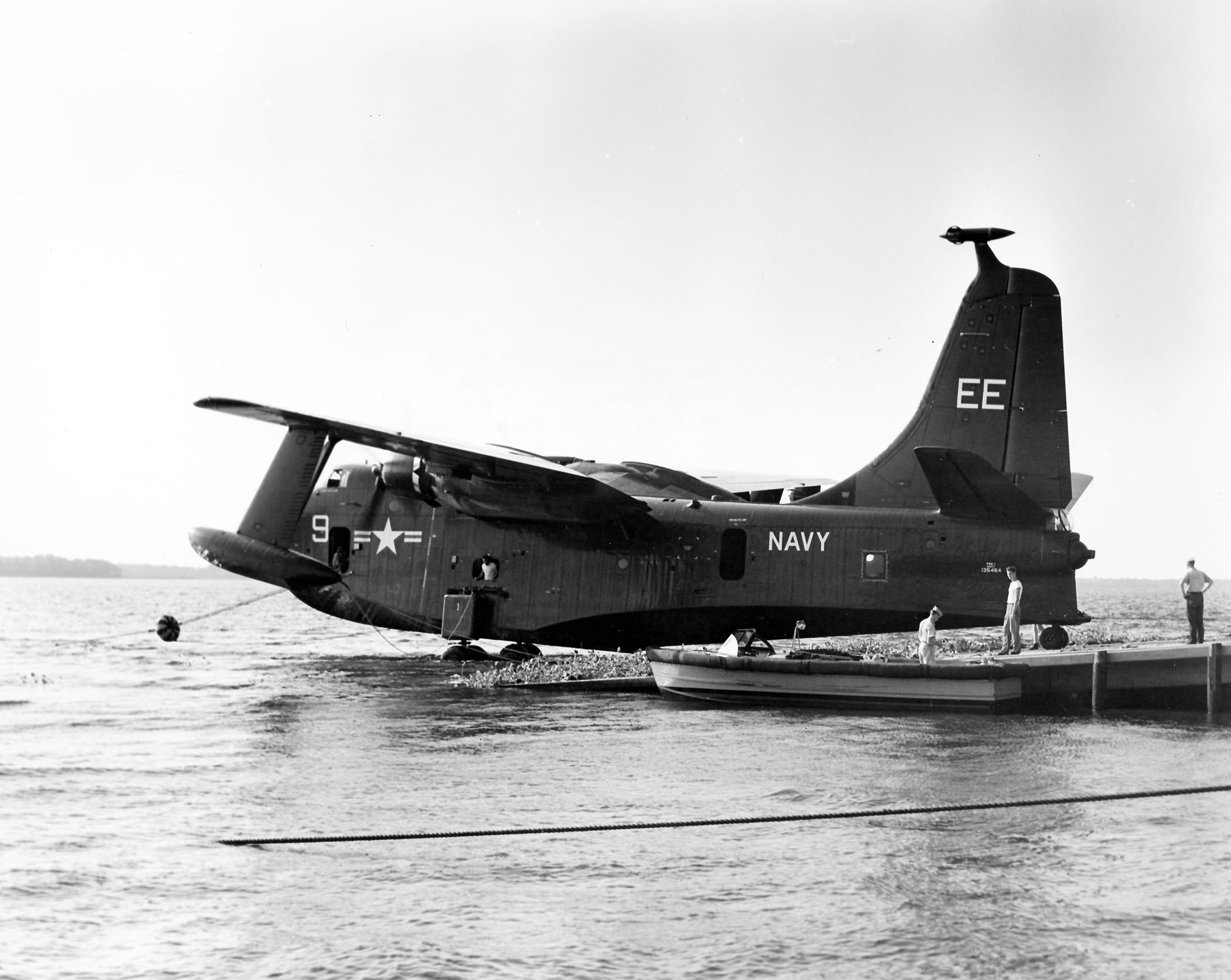 A Martin P5M-1 Marlin (BuNo. 135464) of patrol squadron VP-45 Pelicans about to launch from Naval Air Station Jacksonville (Florida, USA) in 1954.